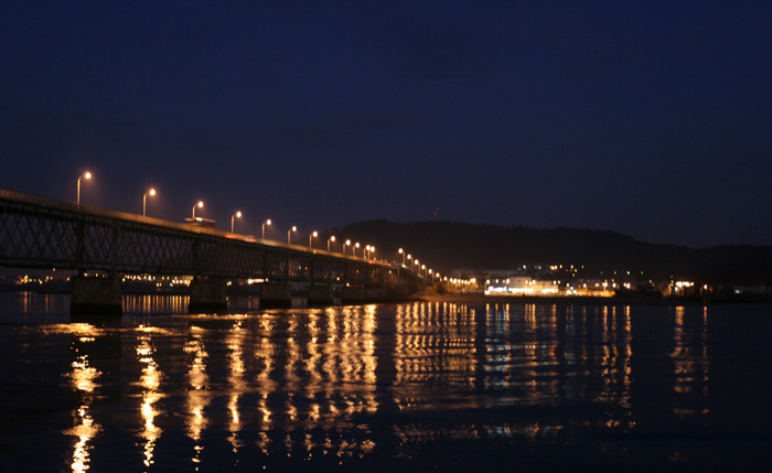 Eiffel Bridge in Viana do Castelo, Portugal.